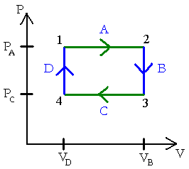 Rectangular cyclic process: two isobars and two isochores.